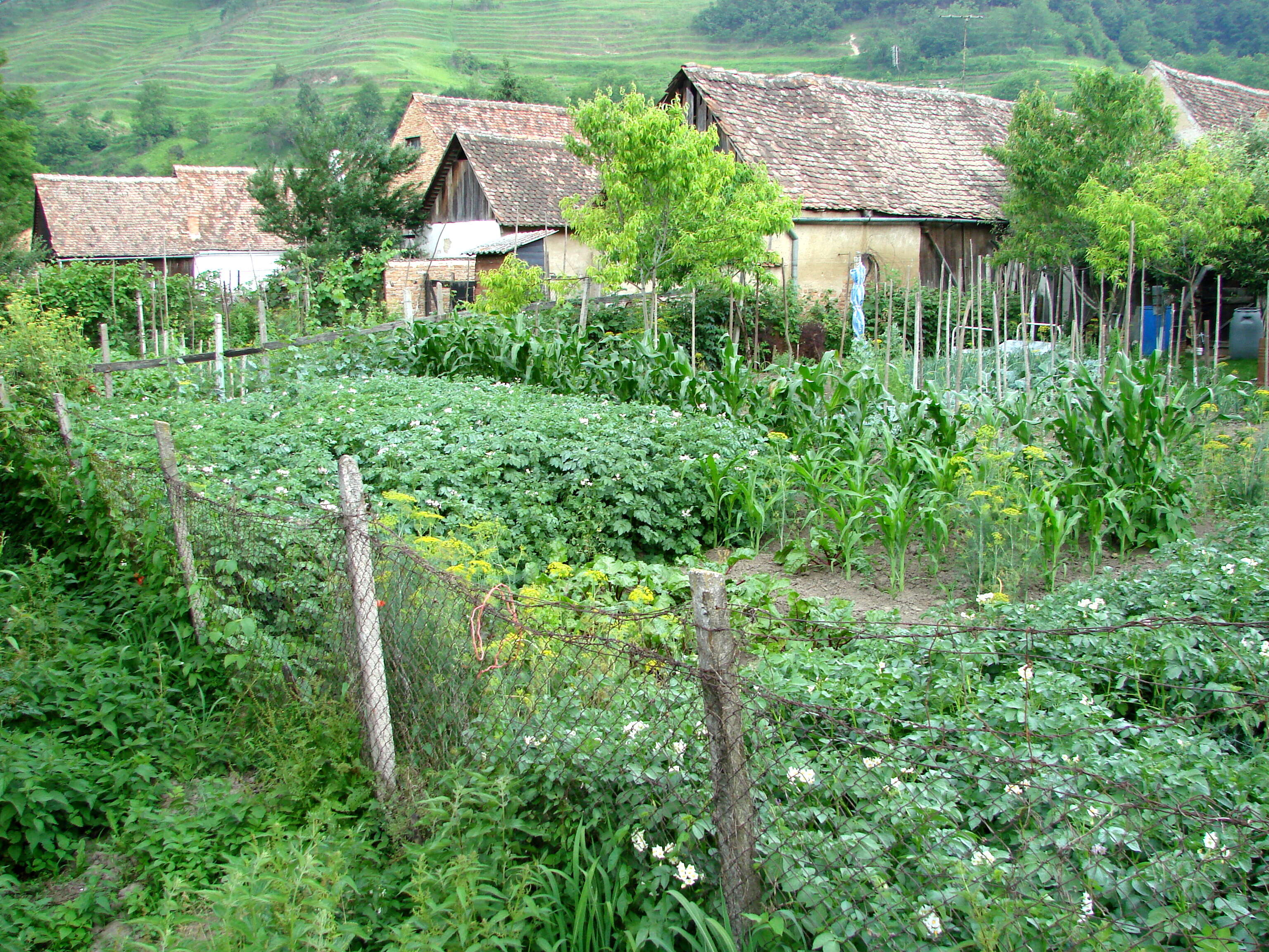 Gardens and houses in the village of Biertan, Romania. June 2007.